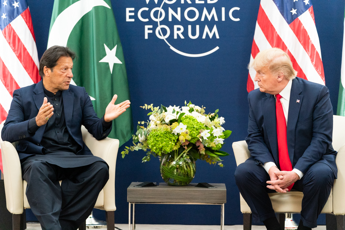 President Donald J. Trump meets with the Prime Minister of the Islamic Republic of Pakistan Imran Khan Tuesday, Jan. 21, 2020, at the Davos Congress Centre in Davos, Switzerland. (Official White House Photo by Shealah Craighead)